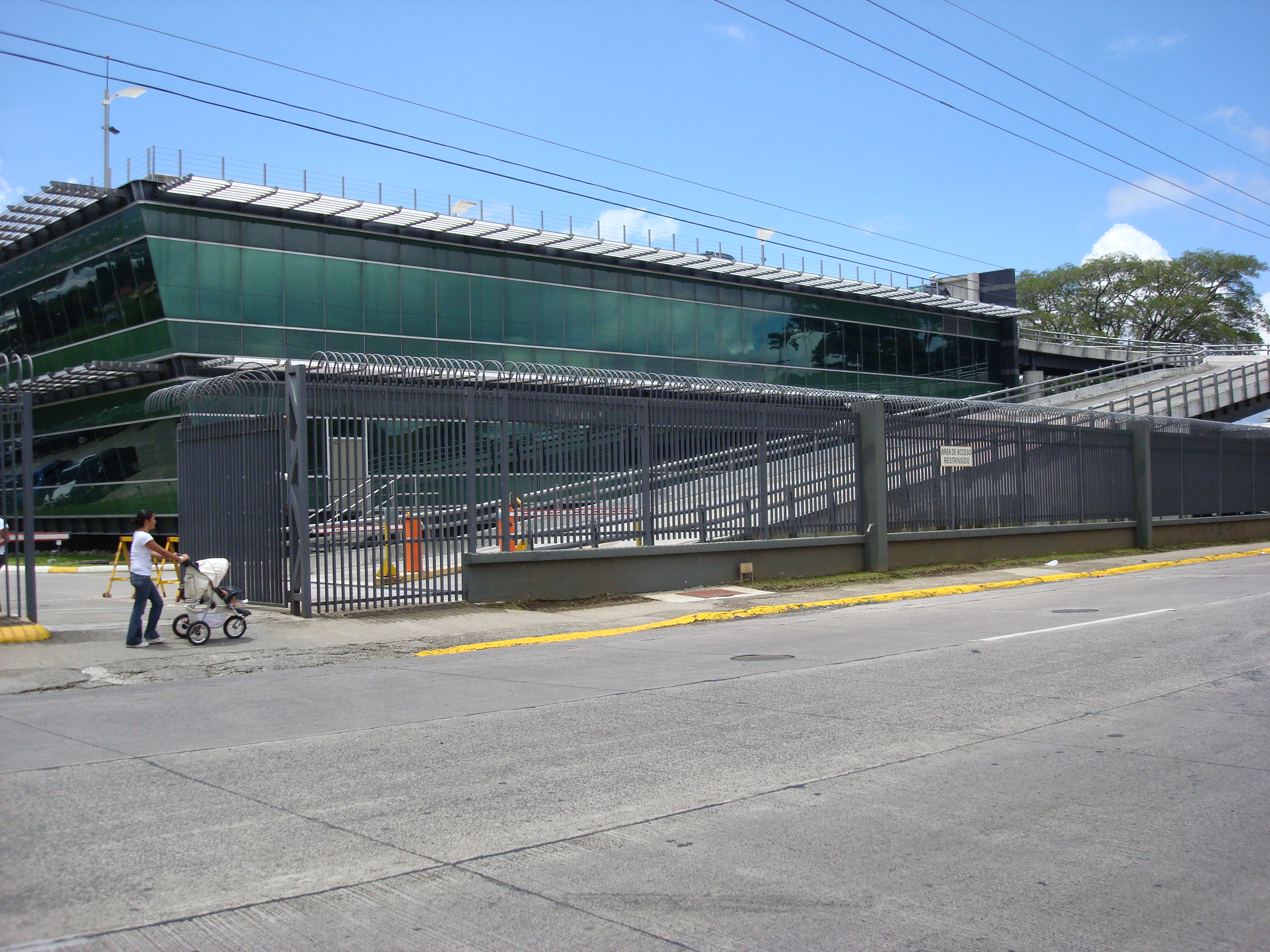 HP in Heredia